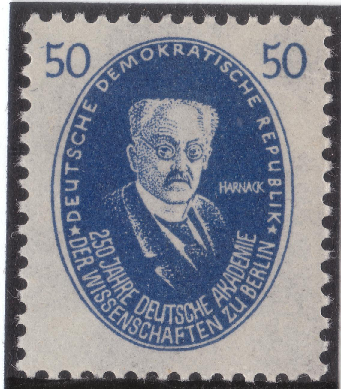 250th anniversary of the German academy of sciences in Berlin Graphic designer: Gerhard Kreische Ausgabepreis: 50 Pf First Day of Issue / Erstausgabetag: 10. Juli 1950 Michel-Katalog-Nr: 270